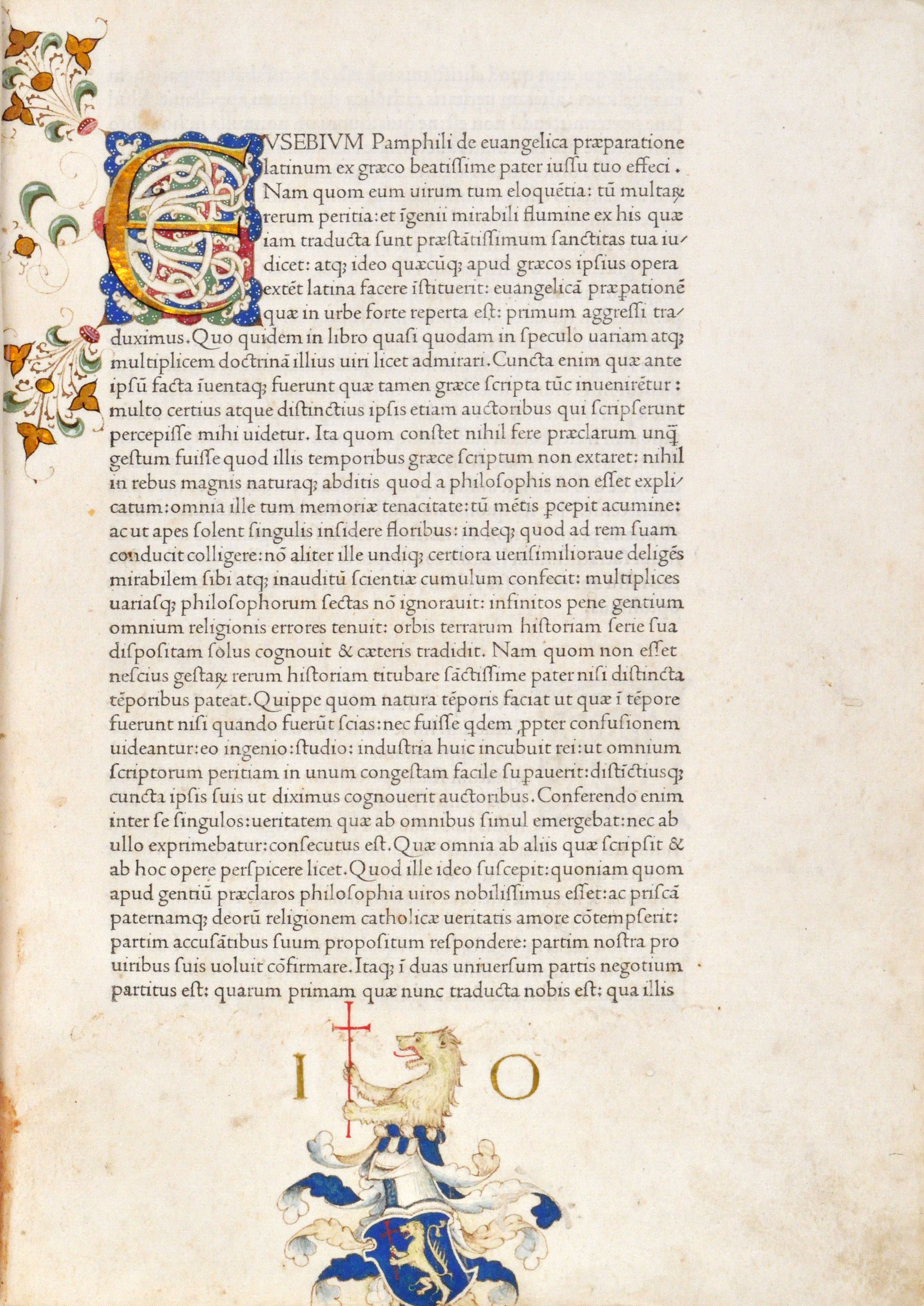 first page of the 1470 edition of Eusebius’ De evangelica praeparatione composed of Nicolas Jenson’s antiqua